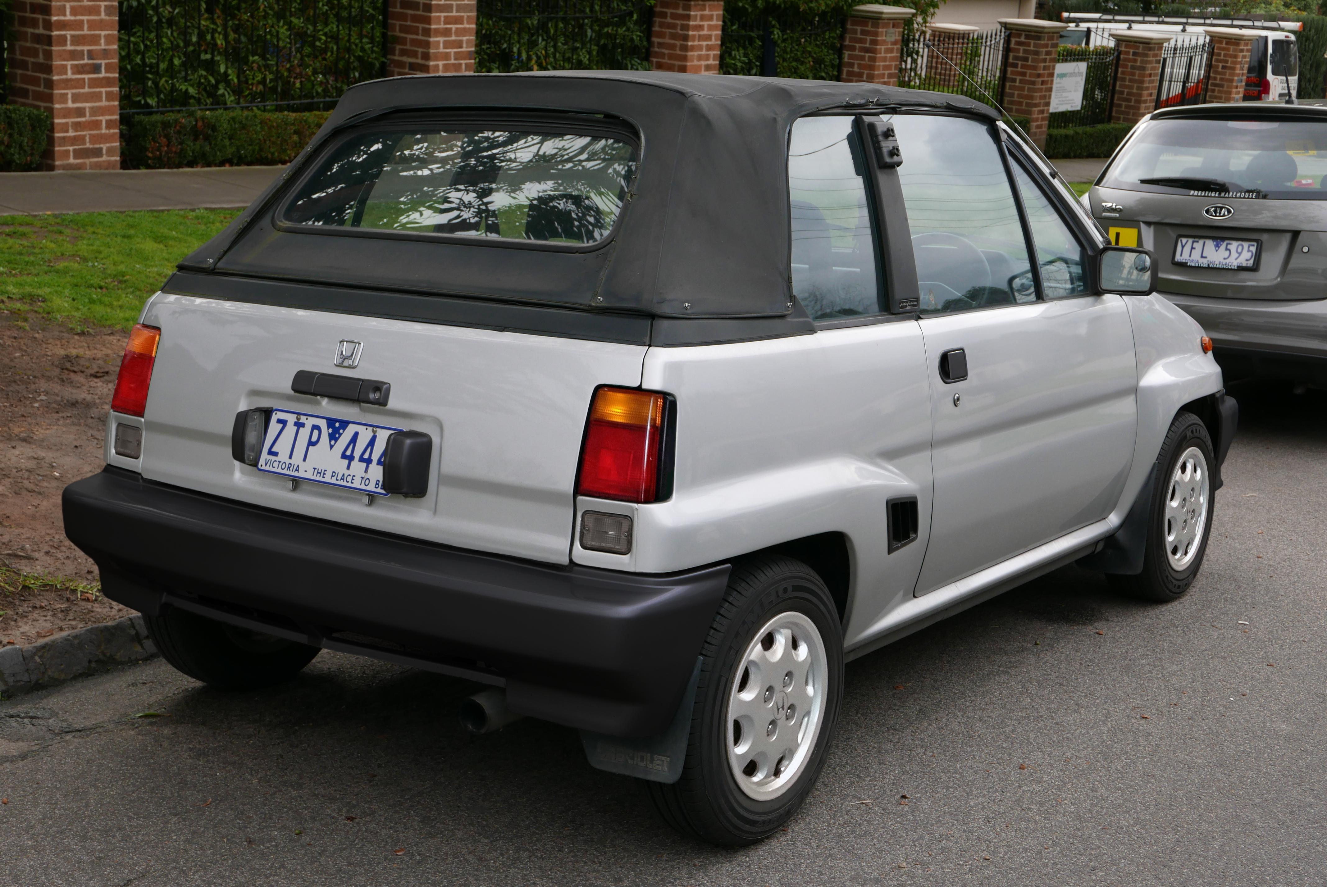 1984–1986 Honda City (FA) convertible. Despite the date discrepancy between the description and the vehicle registration information below, this model ceased production in 1986. This is a grey import from Japan, complianced for Australia in April 1988, which would explain the erroneous vehicle registration enquiry results listing the "year of manufacture" as 1988. Photographed in Balwyn, Victoria, Australia. Vehicle registration enquiry results Jurisdiction Victoria Registration ZTP444 Chassis code 6B9H0NDA093SS8015 Engine code ER1090490 Compliance date 1988-04 Year of manufacture 1988